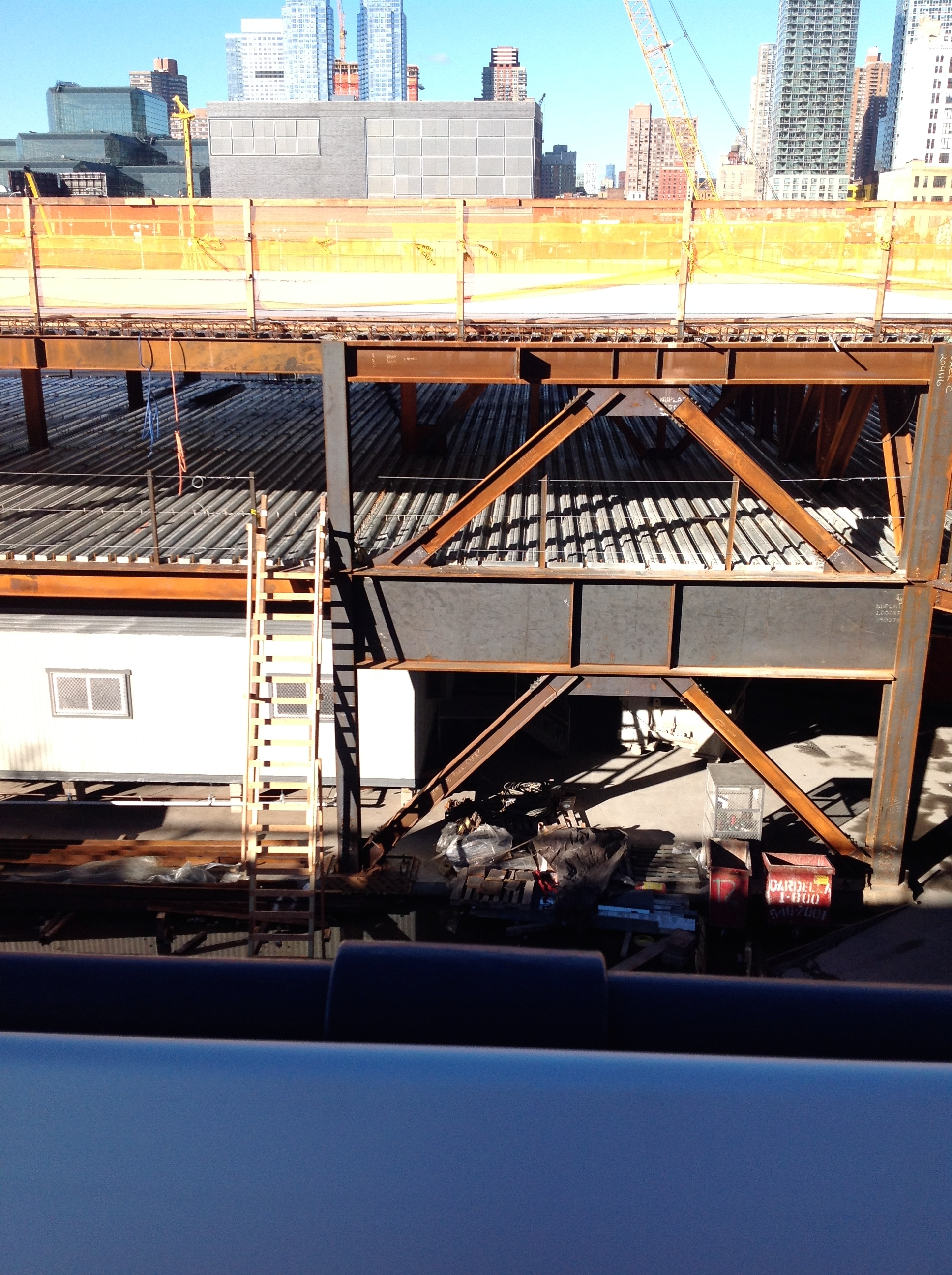 Foundation of the Culture Shed on the Hudson Yards Redevelopment Project platform.